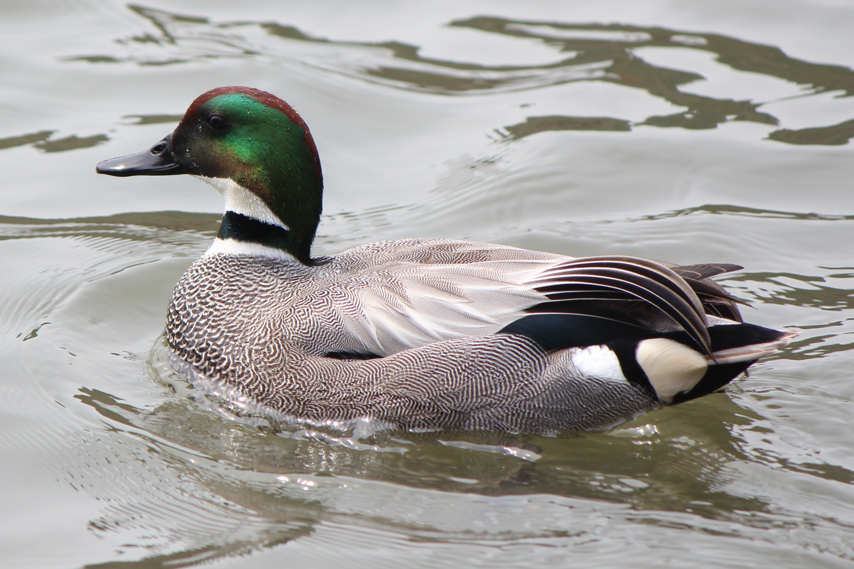 Falcated duck (Anas falcata), male, in Maibara, Shiga pref., Japan.